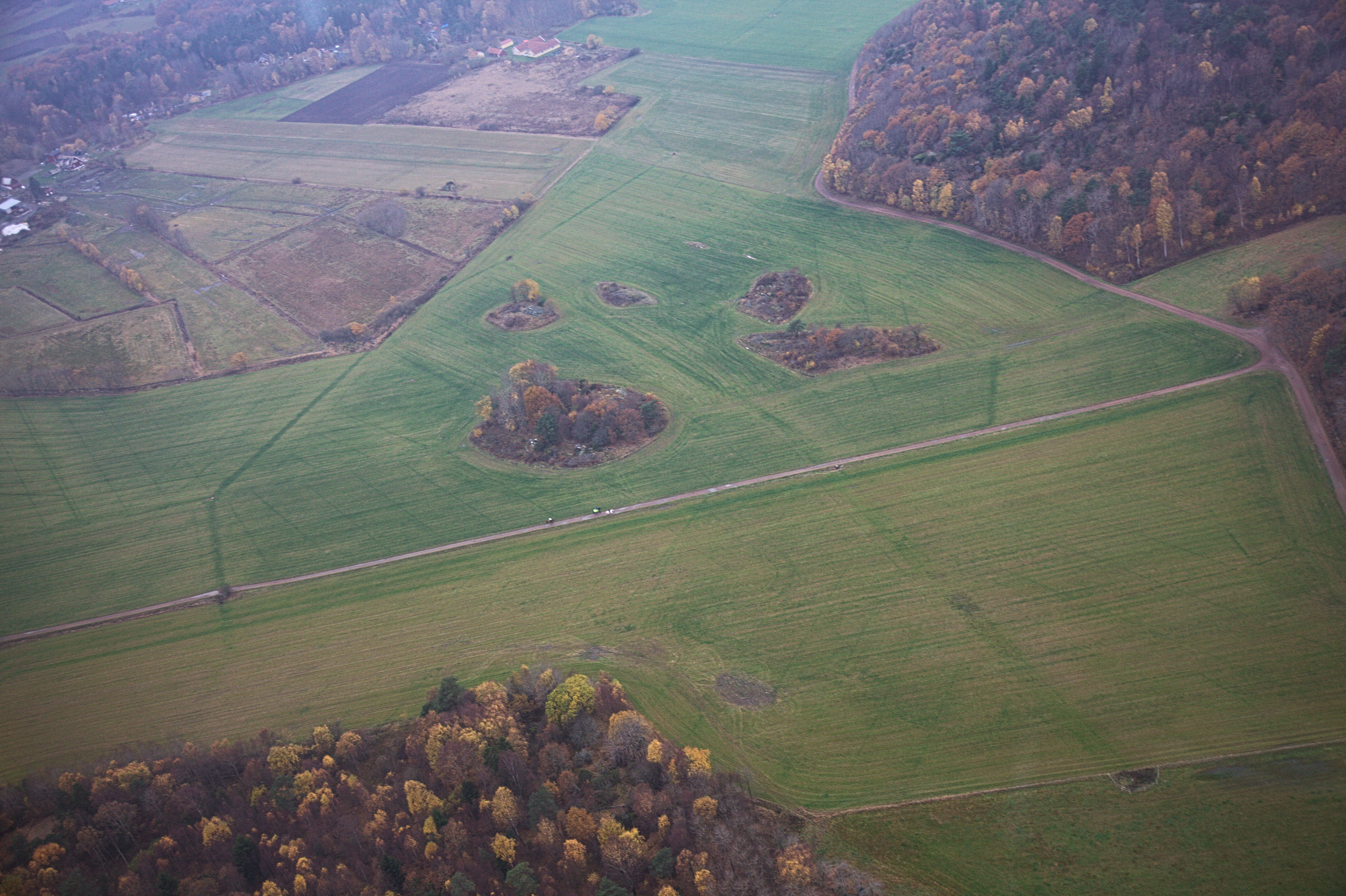 Photo taken on a helicopter over Gothenburg